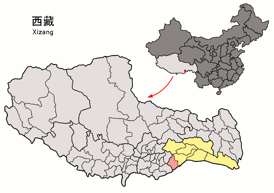 Location of Nyingchi County (pink) and Nyingchi prefecture (yellow) within Tibet (Xizang) autonomous region of China